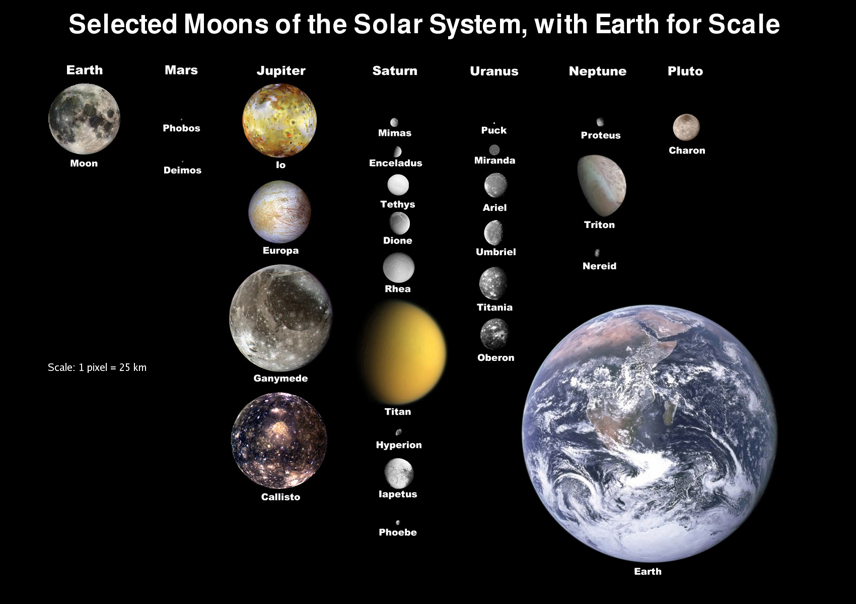 Moons of solar system scaled to Earth's Moon